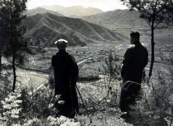 25 Jan 1949, Chiang Kai-Shek and Chiang Ching-kuo in Fenghua